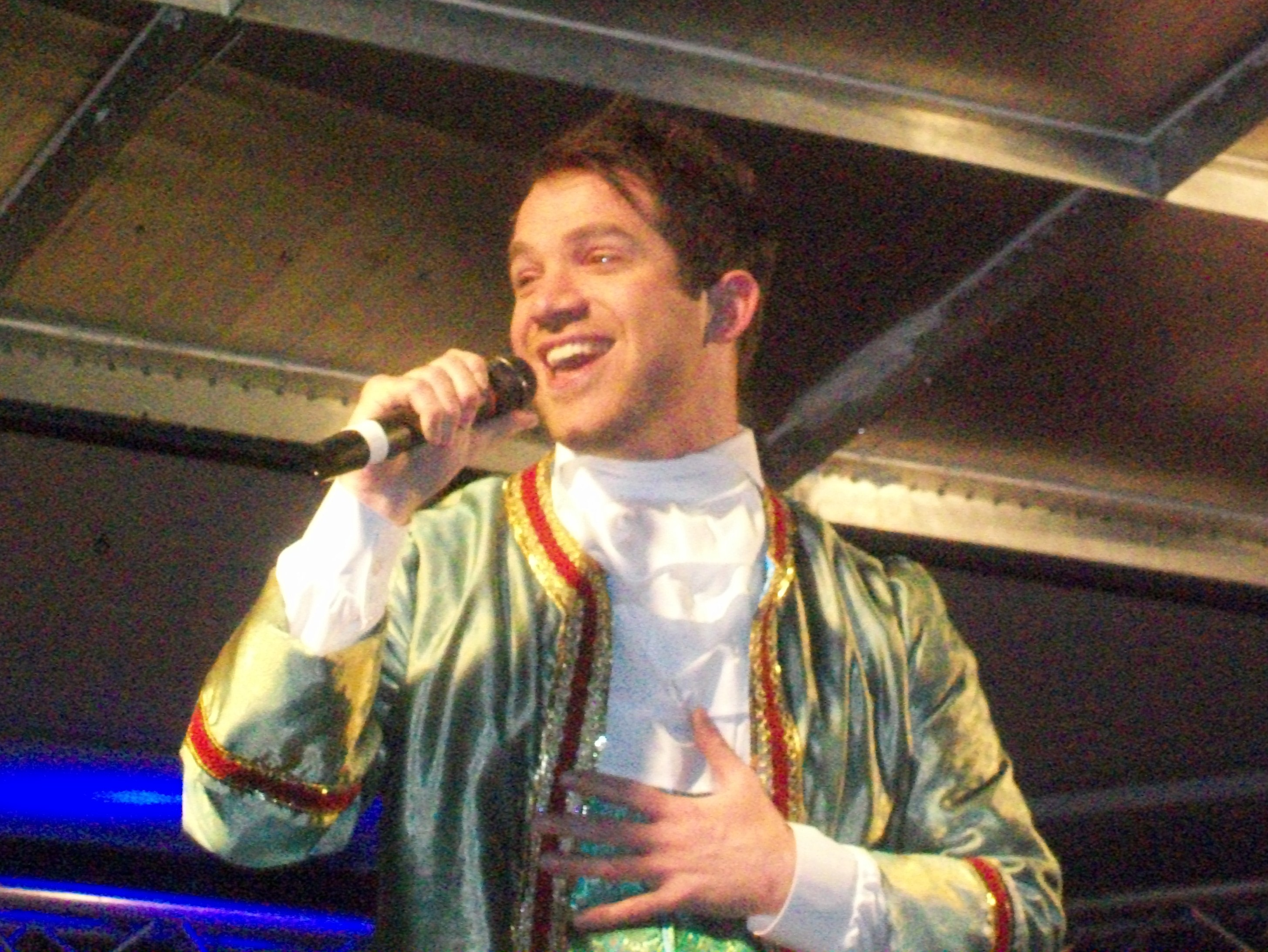 Daniel Boys, in costume as Prince Simon in Snow White and the Seven Dwarfs, performing at the Stevenage Christmas Lights Switch-on, 18 November 2010.